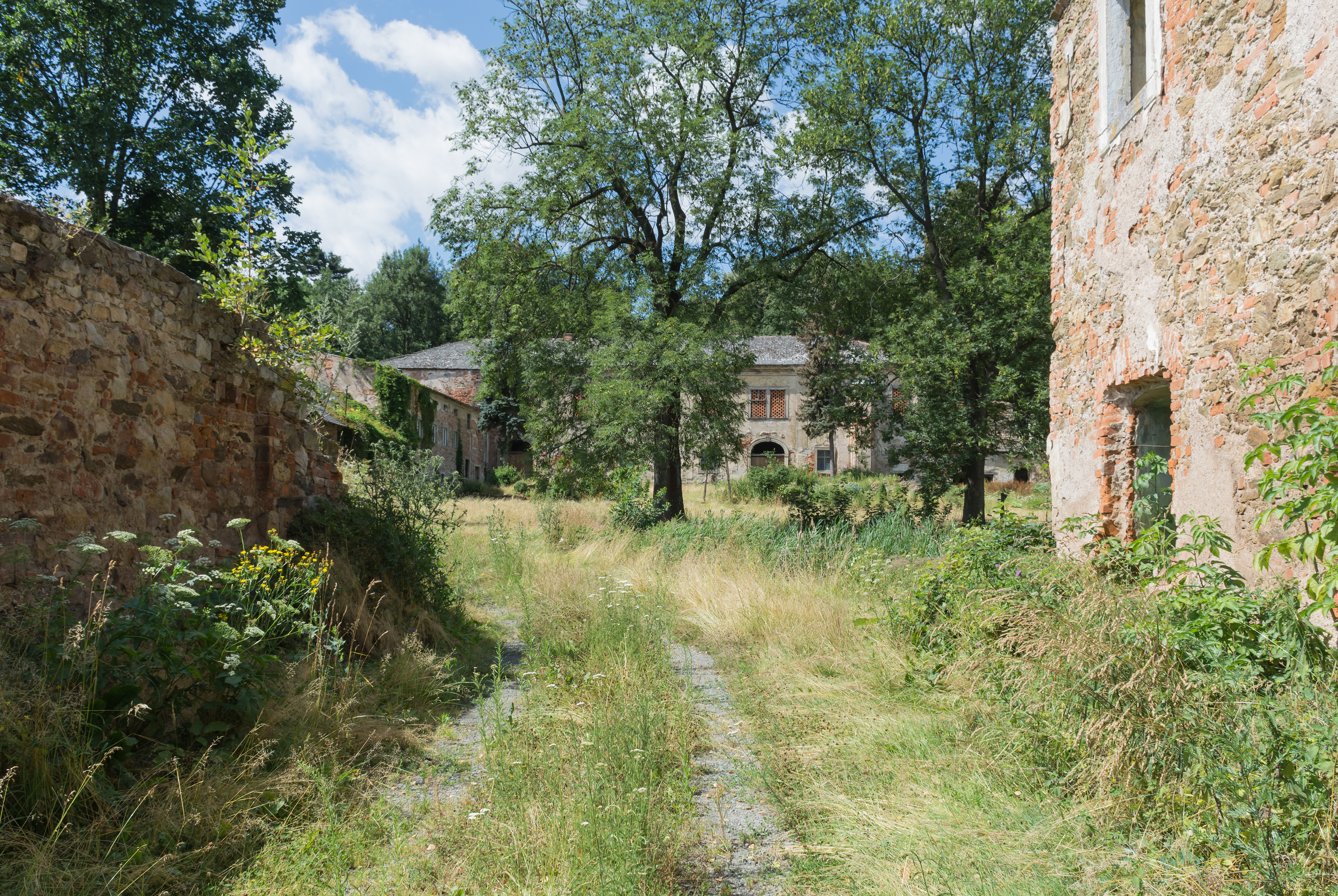 Palace in Korytów